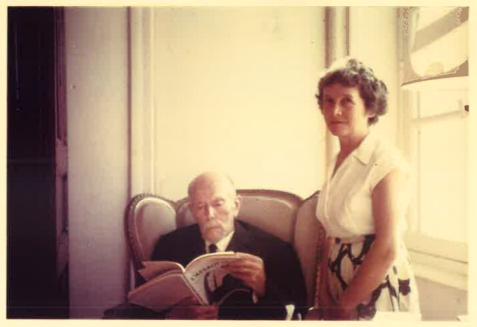 Edouard Dhorme et Jeanne, Brest, 26 août 1964